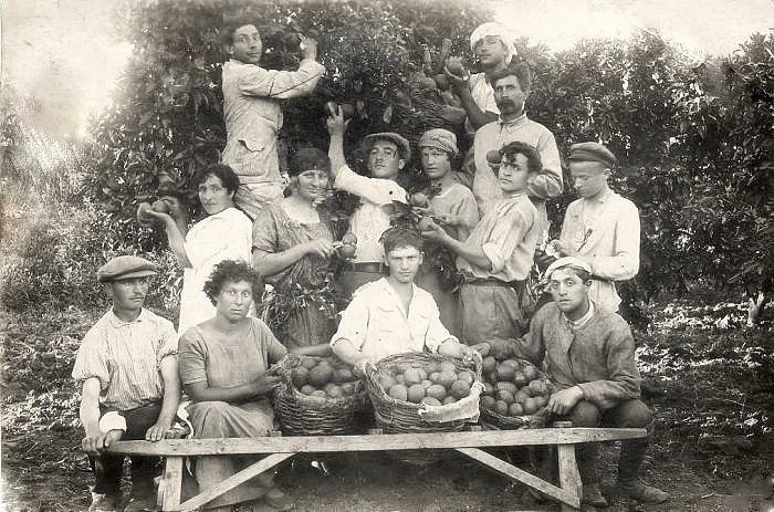 Farmers of Ein Ganim (today a neighborhood of Petah Tikva) posing to the camera while working in the Har-Shemesh orchard.